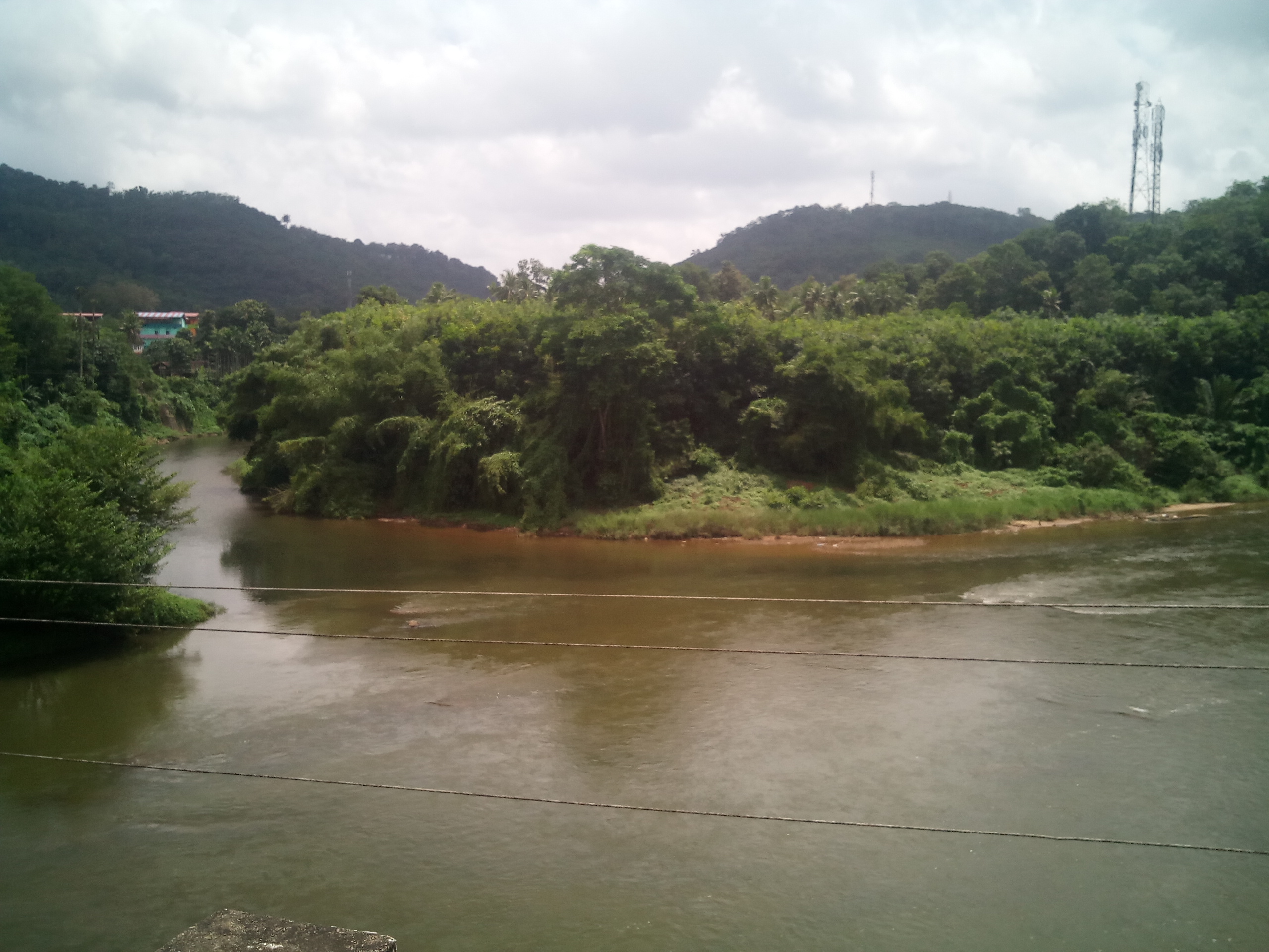 pamba river